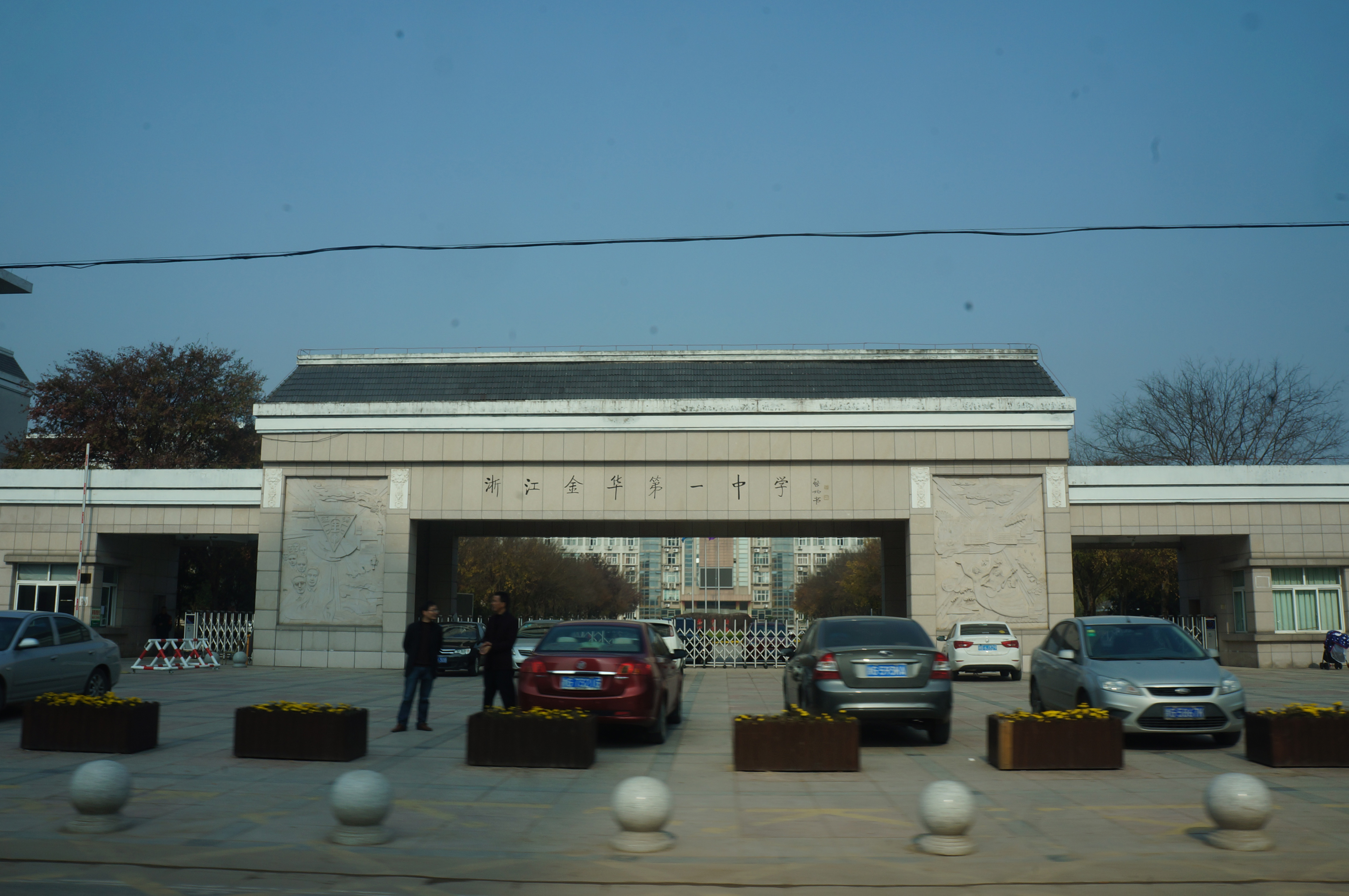 201612 Gate of Jinhua No.1 High School